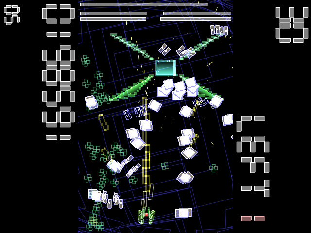 Screenshot of the freeware video game PARSEC47